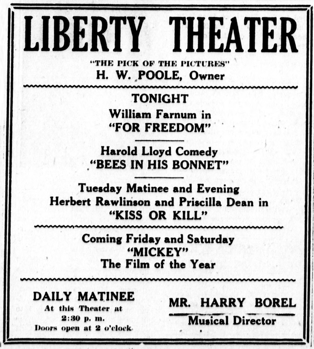 Bees in His Bonnet is a 1918 short comedy film featuring Harold Lloyd. This is a contemporary text advert from a newspaper for the film (and other films).